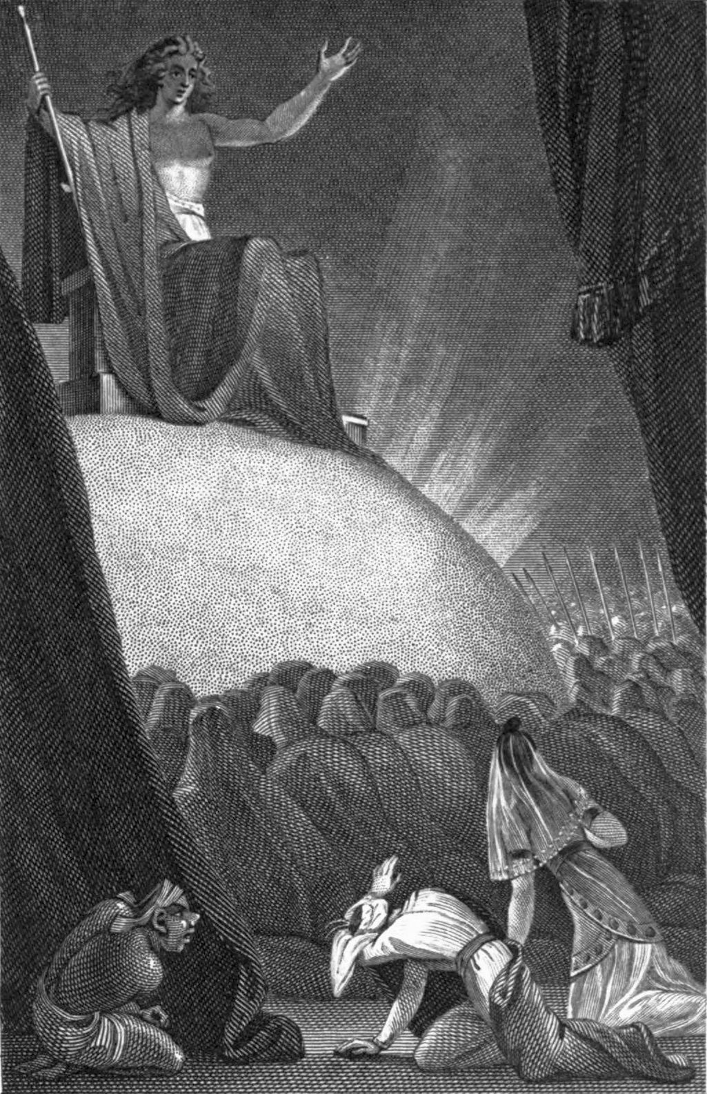 frontispiece to the gothic novel Vathek